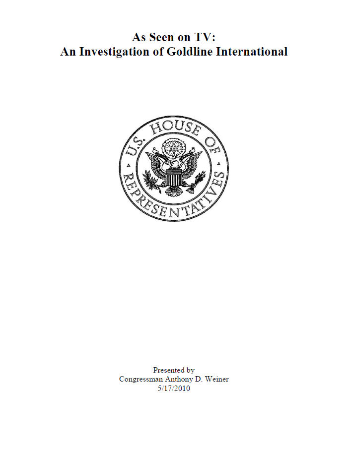 The cover of New York Representative Anthony Weiner's investigation report of Goldline International. It will be used to illustrate the investigation at Goldline International.